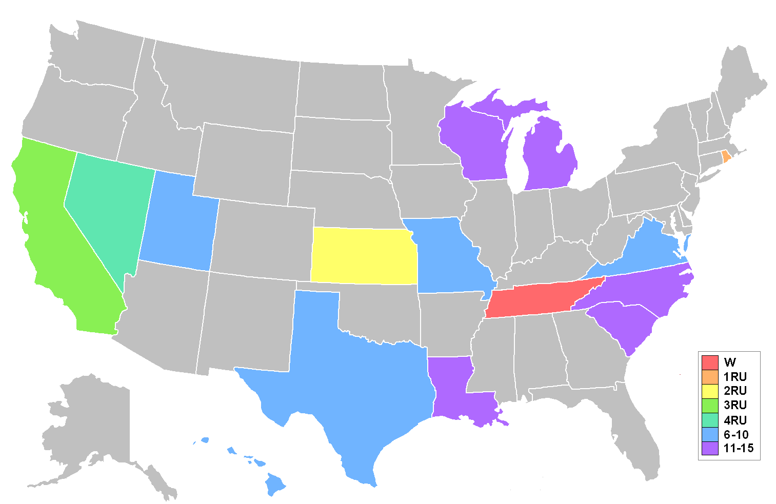 Map showing placements at the Miss USA 2007 pageant. Key on graphic shows colour coding for break down of placements.